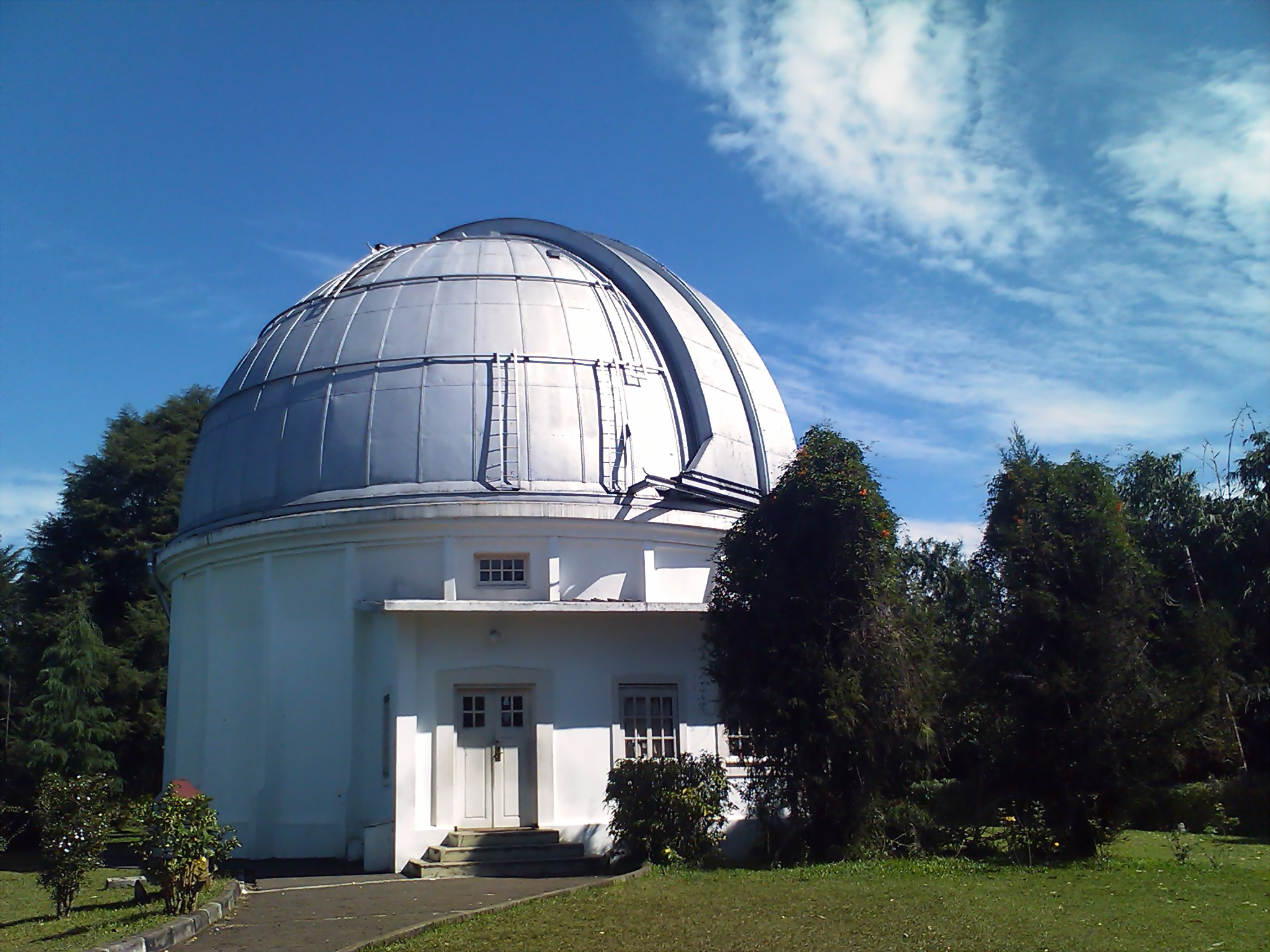 Bosscha observatory at Lembang - Bandung, Indonesia. One of the astronomical telescopes used to view the southern sky.